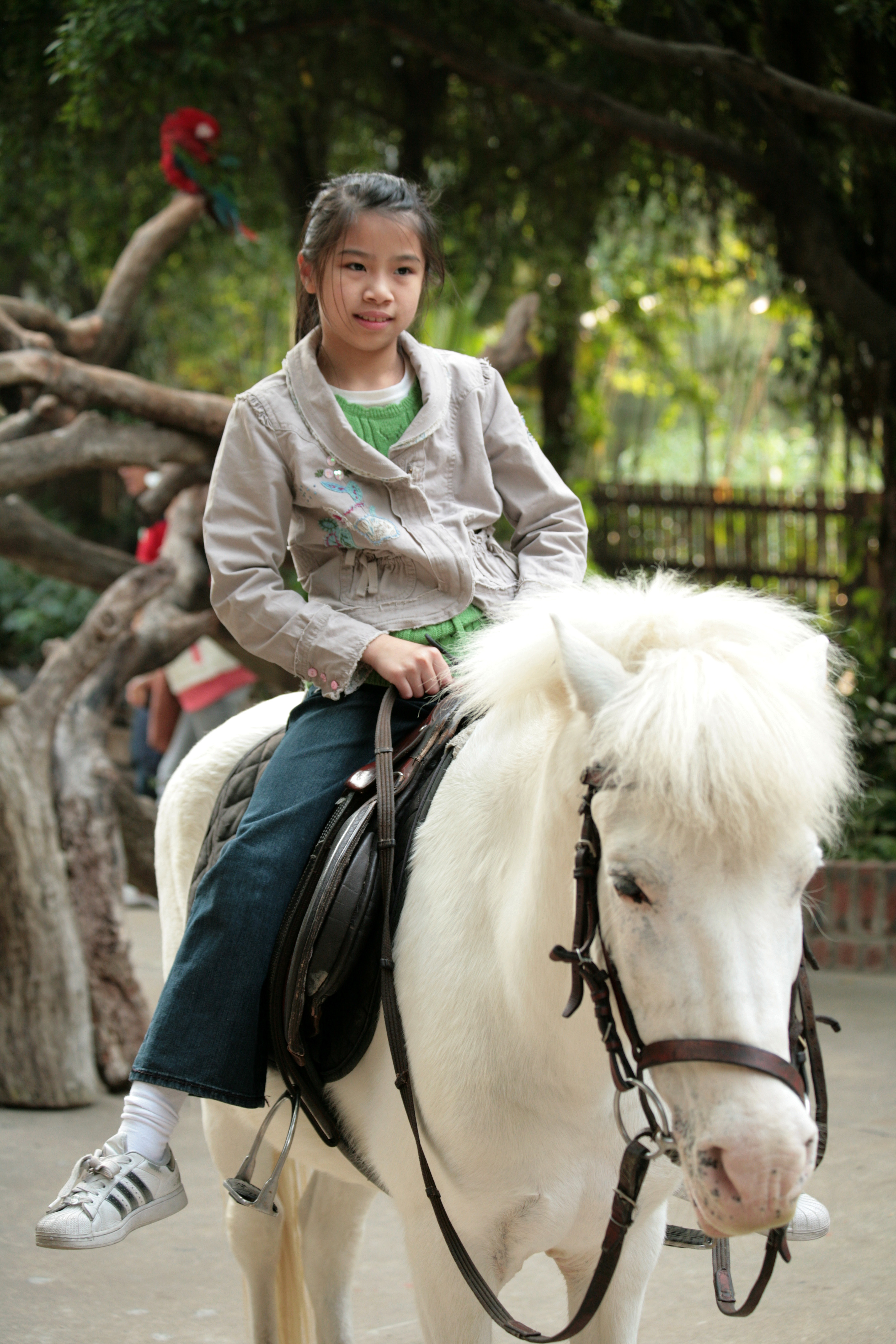 Girl on a white pony